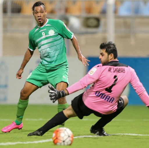 Lyle Peters scoring a goal against Al-Shabab Club of Oman. 6 December 2015 Al-Seeb Stadium, Muscat, Oman Photographer email id